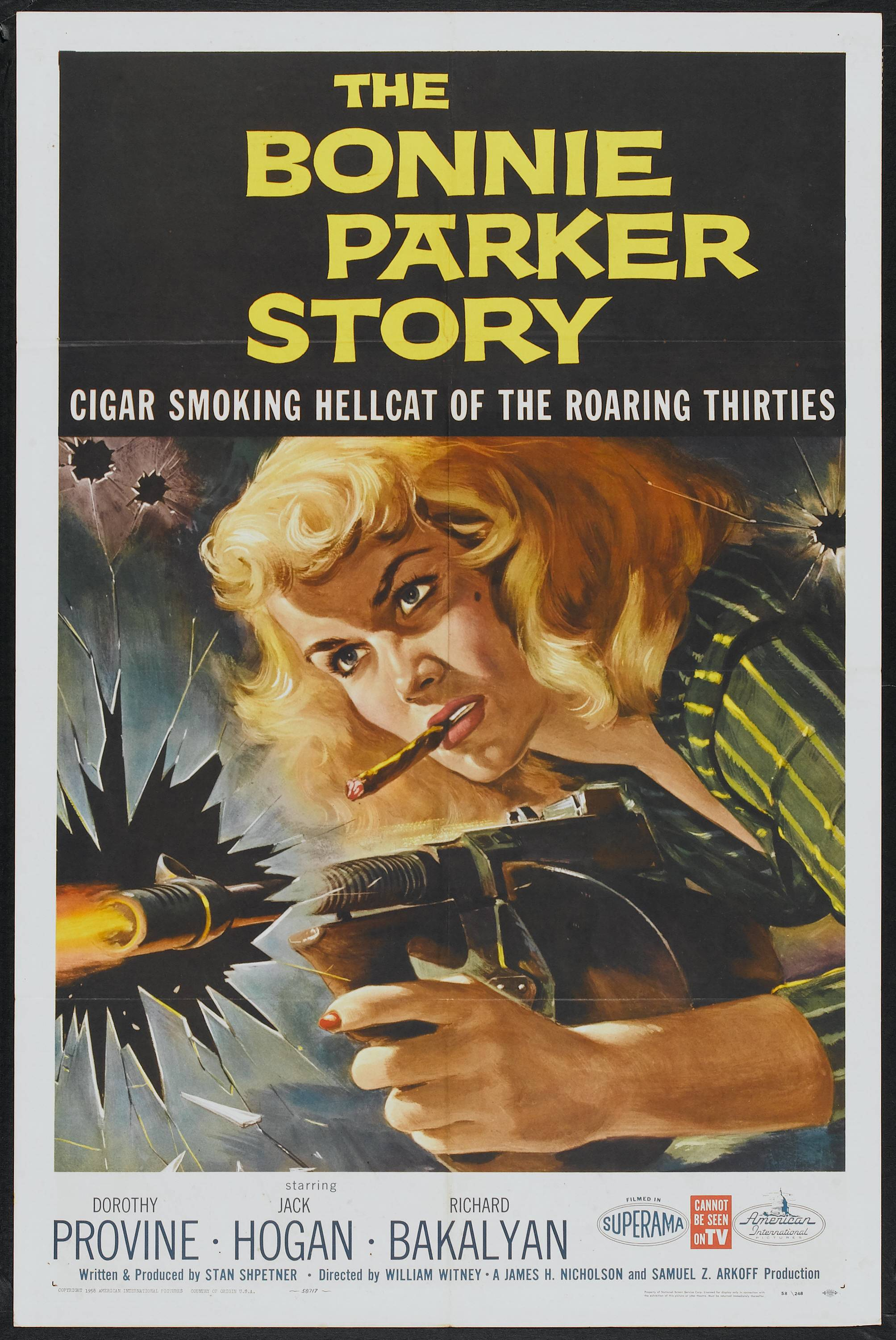 Advertising poster for the film The Bonnie Parker Story (1958)